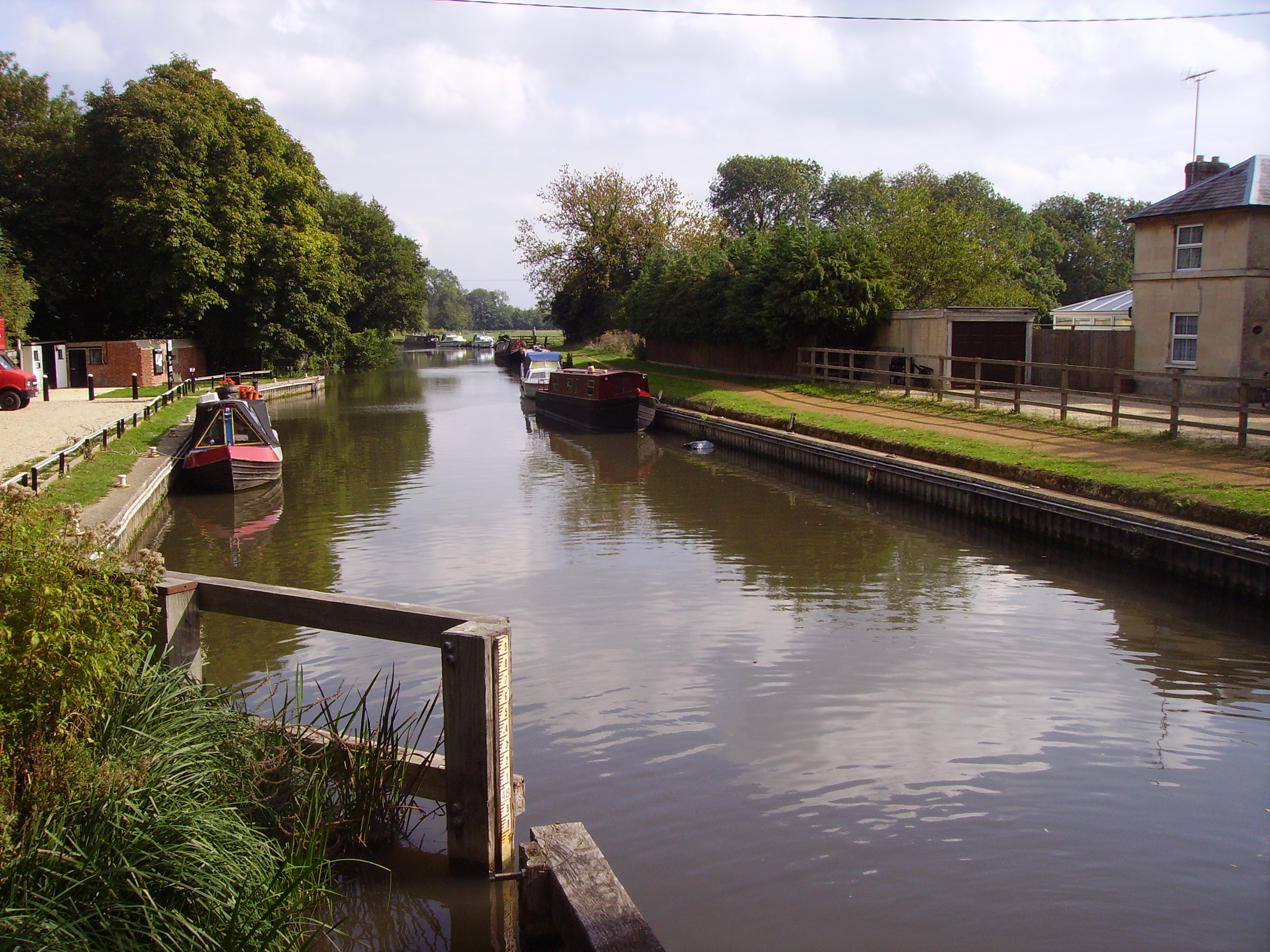 Photographer: User:Ballista